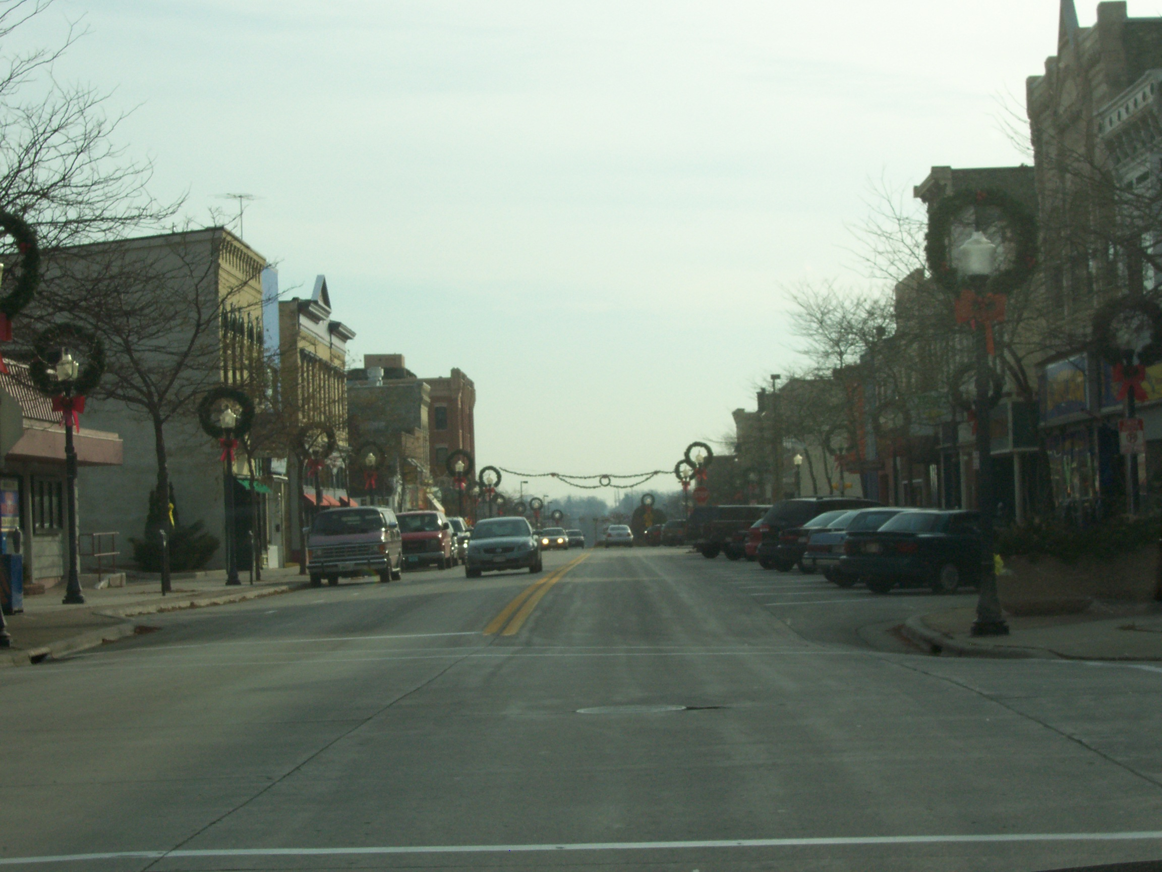 Historic 8th Street in downtown Sheboygan, Wisconsin, USA.